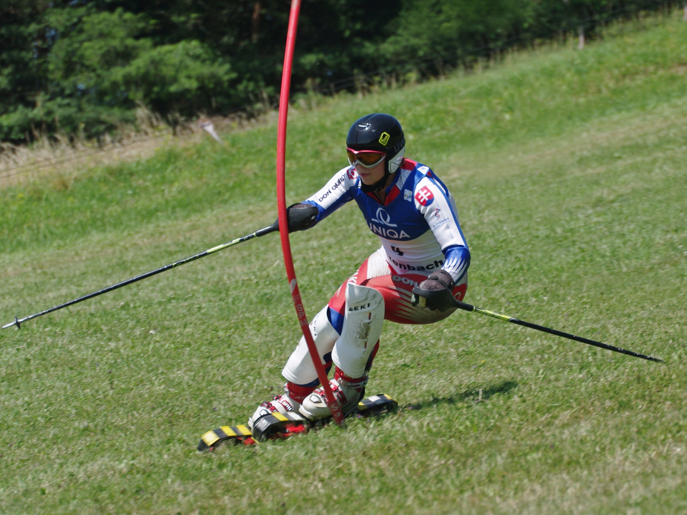 Slovak Grass skier Barbara Míková in the Slalom run of the FIS Supercombined in Rettenbach on 10 July 2011.